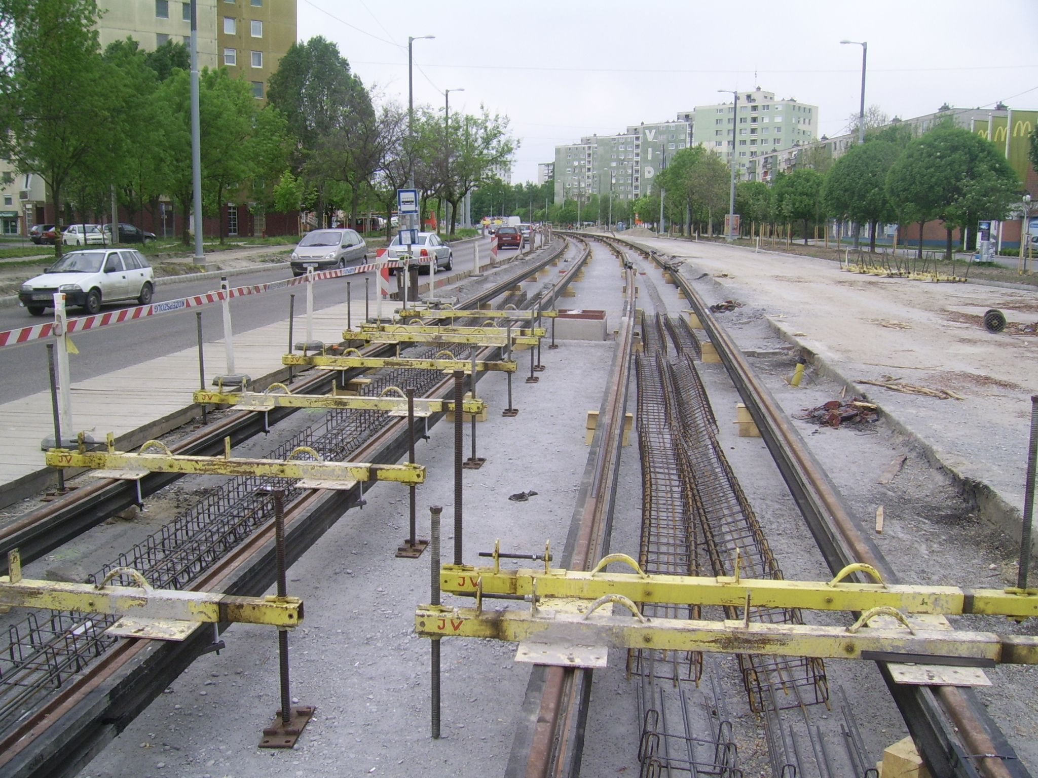 Szeged tram line 2 under construction.